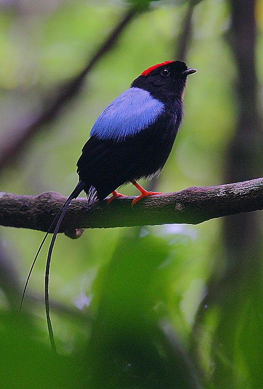 An adult male. Despite the male's bold colours this is a surprisingly difficult wee bird to pick out in the dense subcanopy. Males have an assortment of calls -the most prominent of which is a loud whisteld Tooo-leee-doo, hence the birds local Tico name of Toledo! Image taken at Rincon de La Vieja, Costa Rica